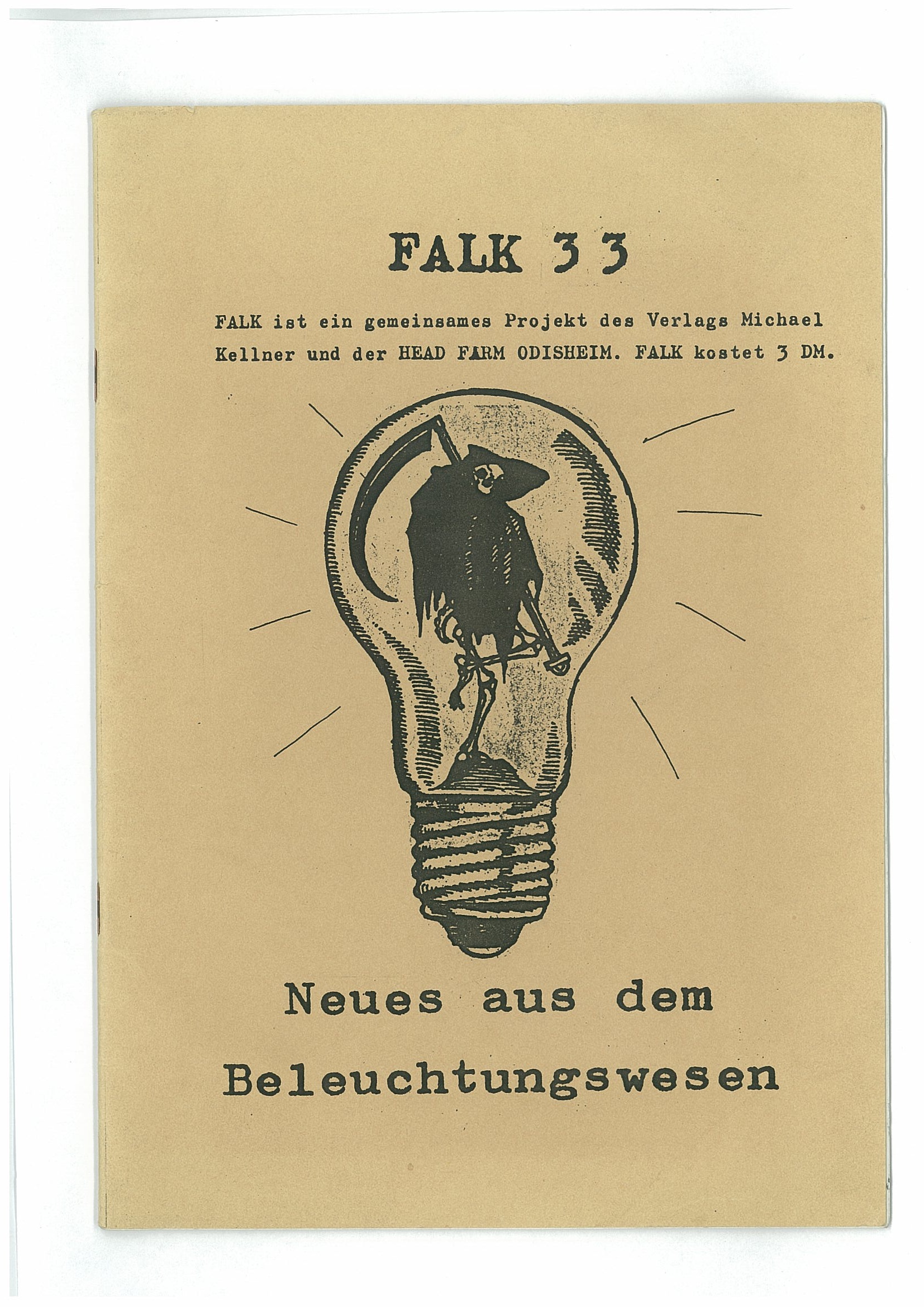 Cover of the German campy magazine Falk No 33